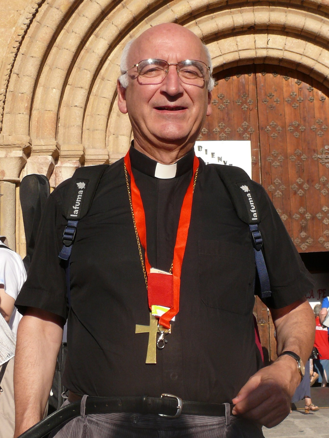 Thierry Jordan, bishop of Reims, photographed in Ávila during the World Youth Day 2011.